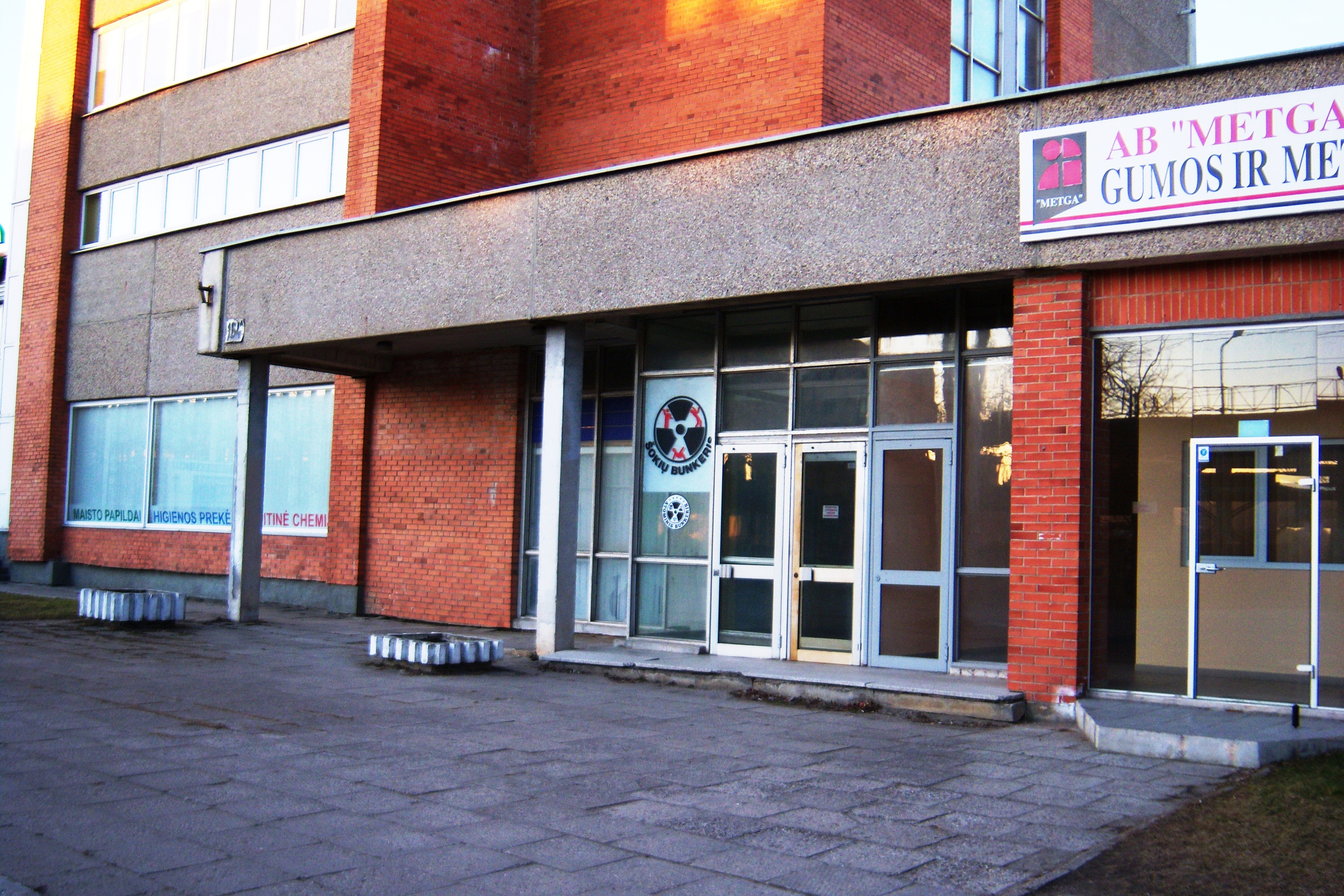 Atomic Bunker, Kaunas, Lithuania